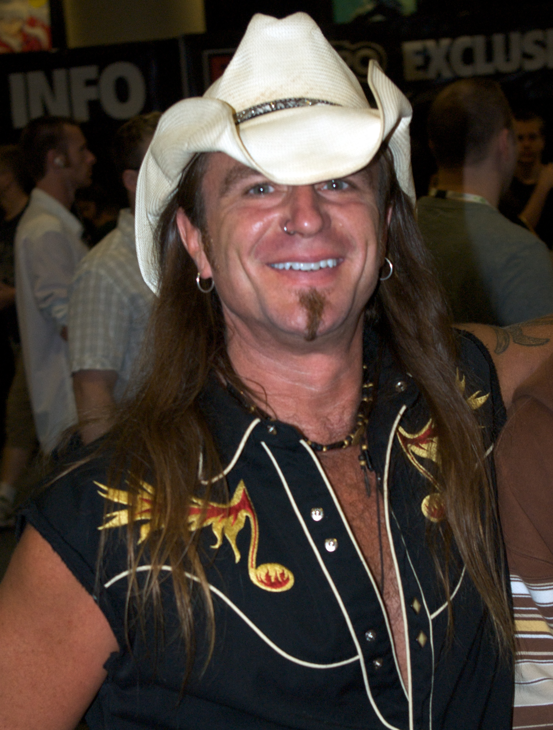 Voice actor Scott McNeil (way too many credits to mention here) wandering the con. I ran into him several times and had conversations with him, which was great!